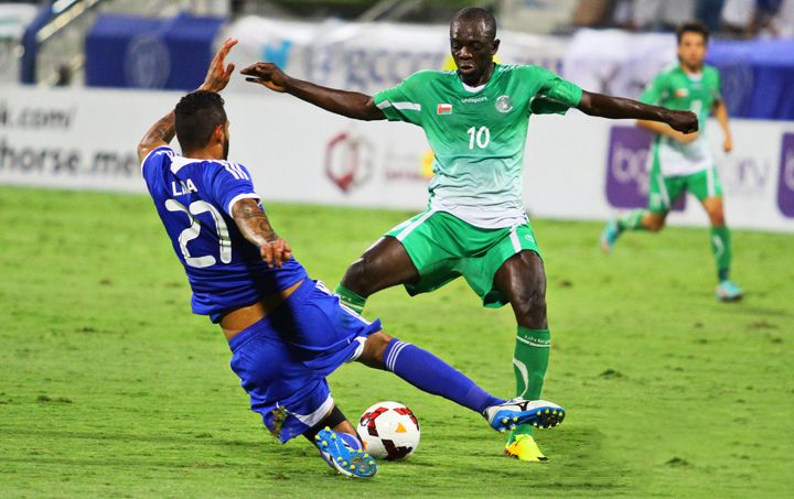 Mohamed Ablaye Gaye in a match against Al Nasr Club of UAE in GCC Champions League 2014 14 May 2014 Maktoum Stadium, Dubai Photographer email id